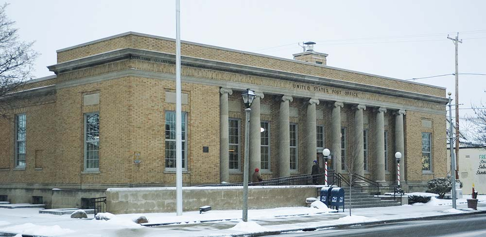 The South Milwaukee Post Office, Registered Historic Place, in South Milwaukee, Wisconsin.